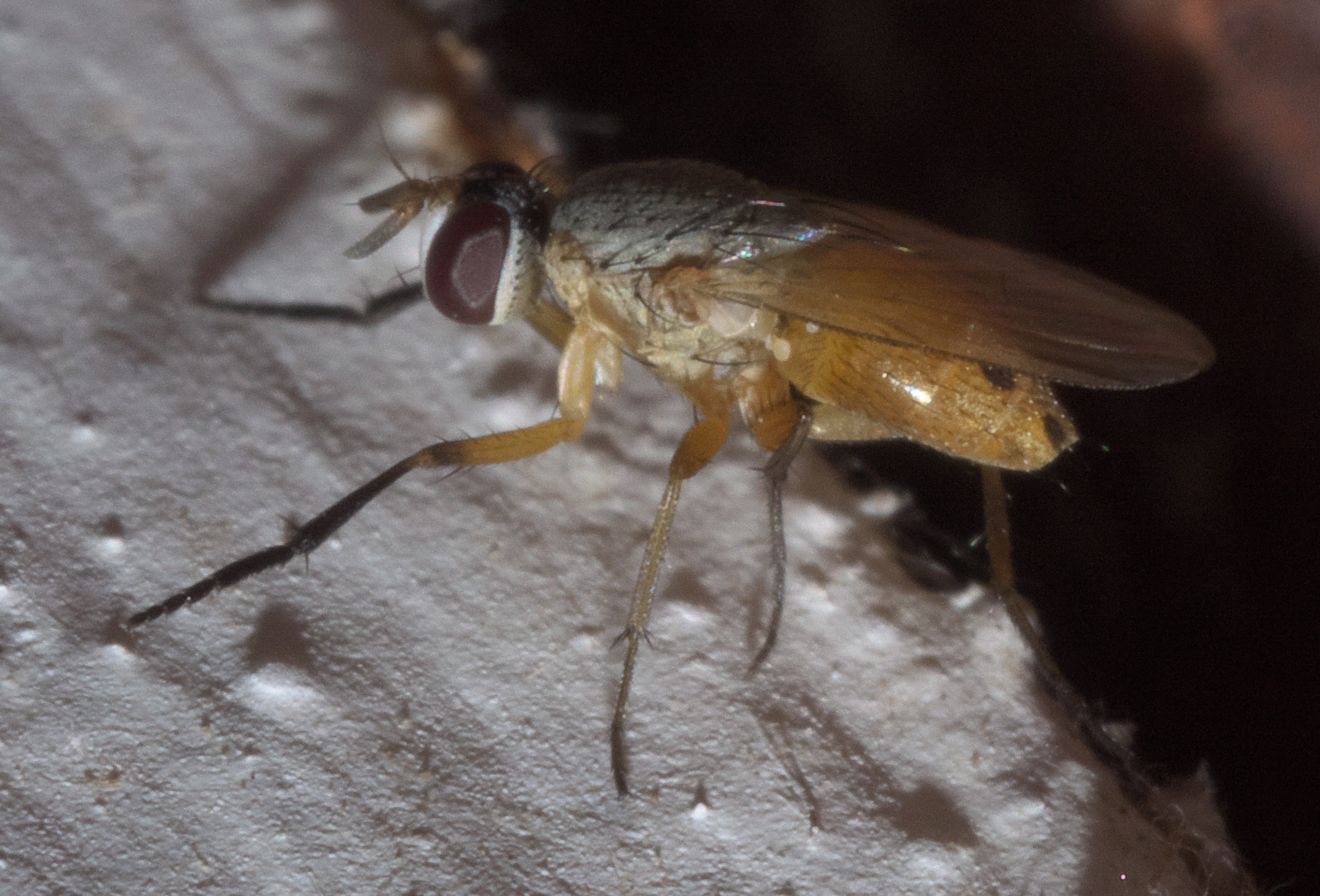 Atherigona reversura, bermudagrass stem maggot, Size: 4 mm body, ID Confidence: 88